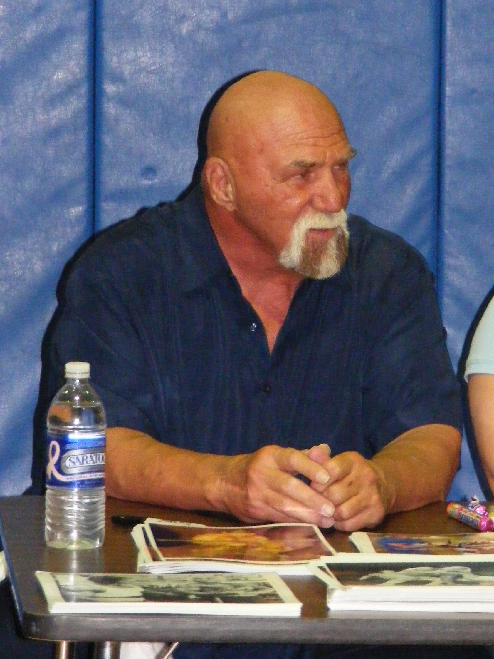 Superstar Billy Graham at a 2CW event in May 2008